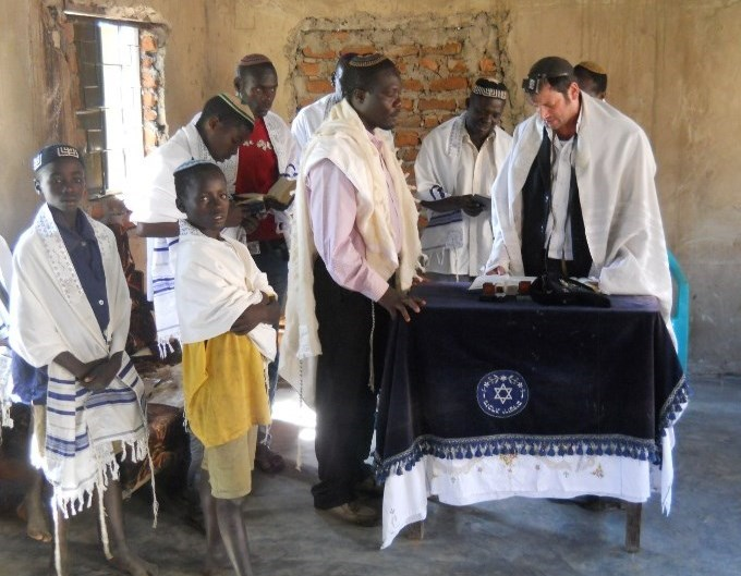 In 2012 visiting and local Rabbis made an Abayudaya prayer in Putti village